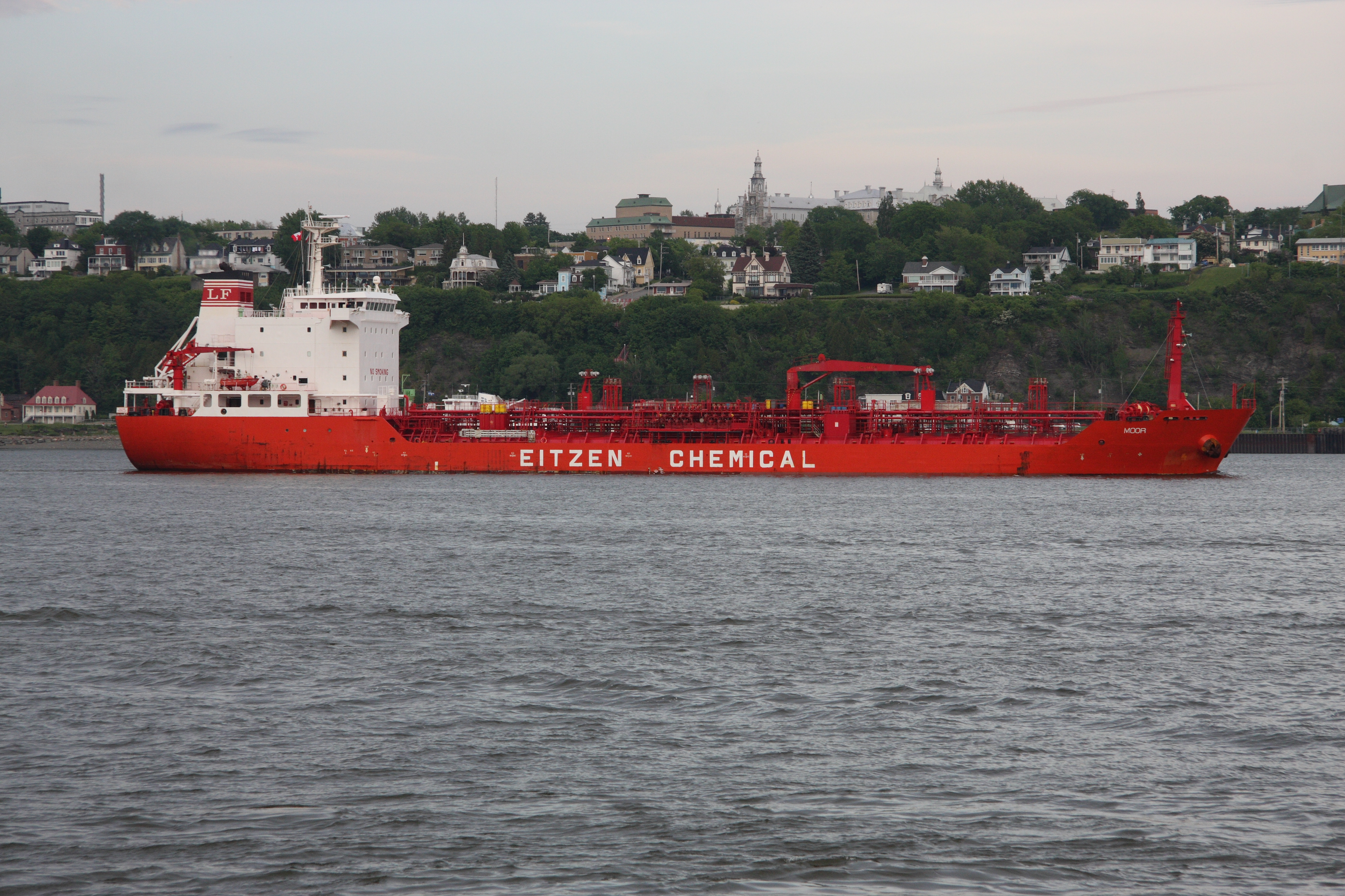 Chemical tanker, Moor, from Eitzen Chemical Company on the Saint Lawrence River between Quebec City and Lévis IMO: 9359595 Built year: 2006 DWT: 12901 GRT: 8450 LOA: 127.20 Beam: 20.43 Draft: 8.71 MMSI Number: 565632000 Callsign: 9VJQ6